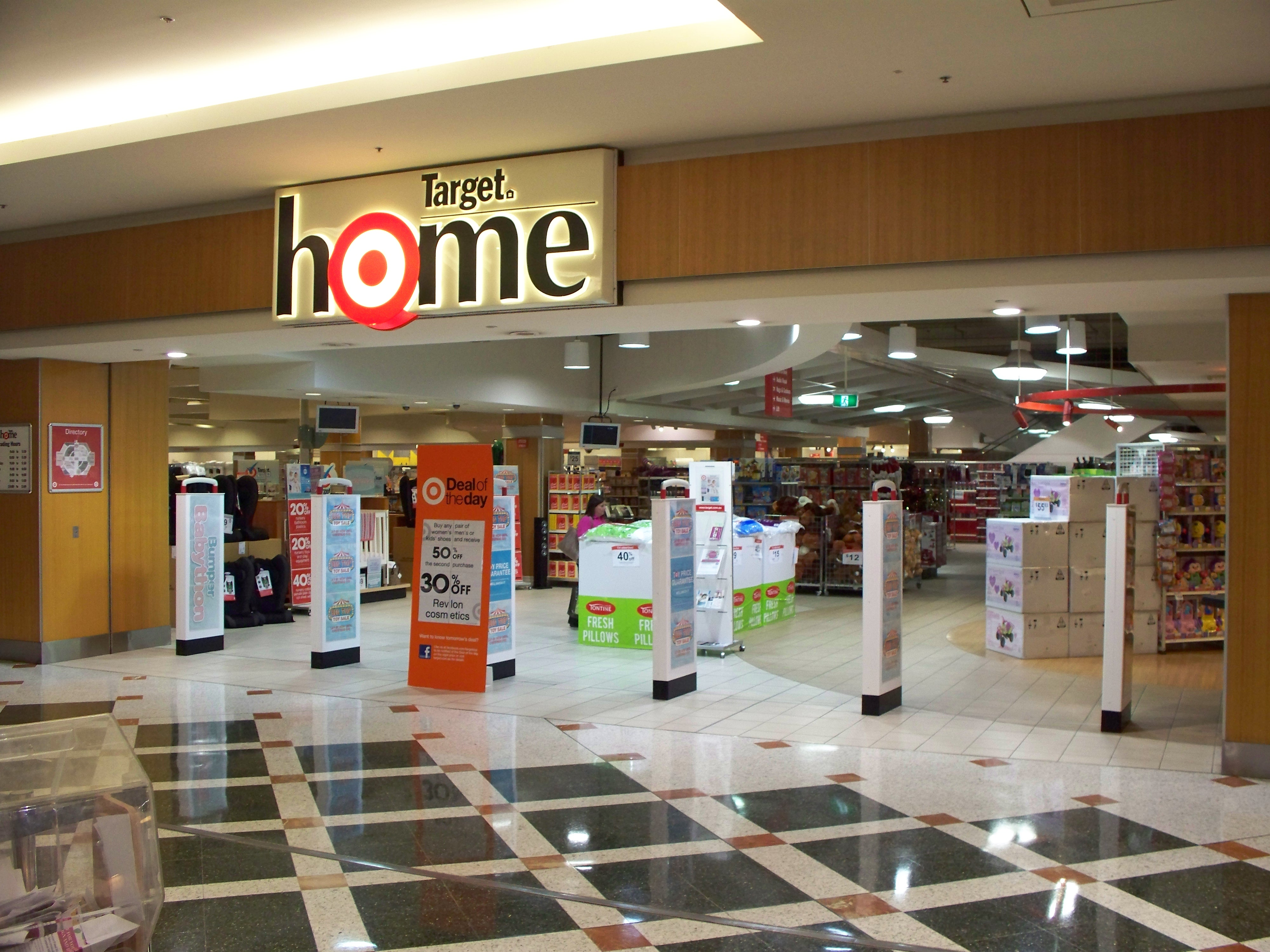 A Target store in Greensborough Plaza, Greensborough, a north-eastern suburb of Melbourne. This picture was taken in October 2012, and like many other national chains within this shopping centre, the old Target Home logo remains at the second level entrance (the third level entrance contains the regular Target logo). This picture was taken using a 12MP Kodak EasyShare Z1275 camera.